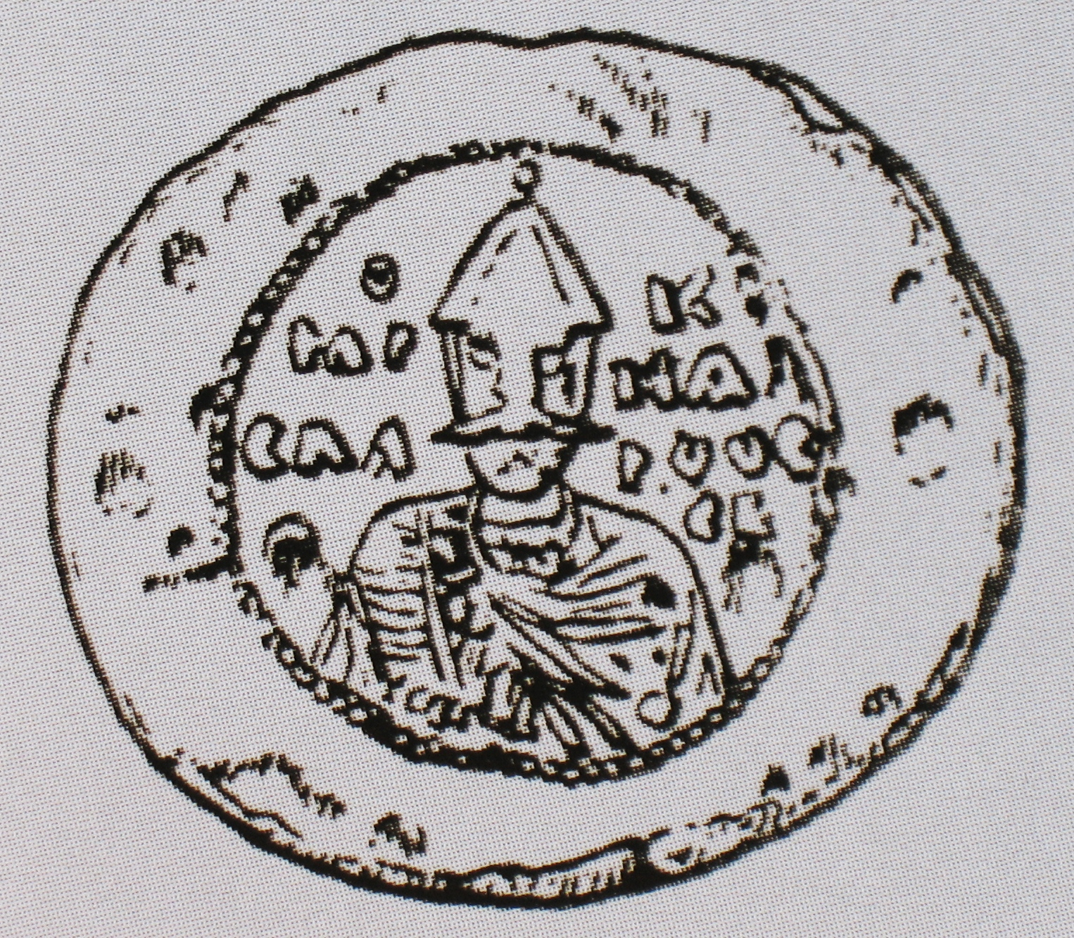 The most probable (live) picture of the Yaroslav the Wise is his seal. Печать князя Ярослава Владимировича [Мудрого], найденная при раскопках в Новгороде в 1994 году.